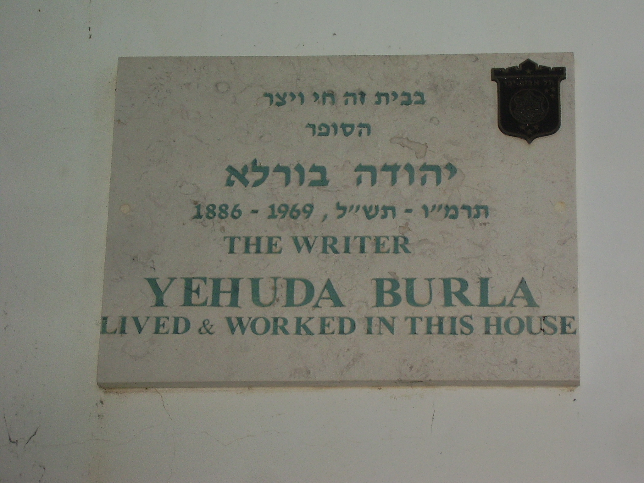 memorial plaque to the writer yehuda burla in tel aviv לוחית זיכרון לסופר יהודה בורלא ברח' טאגור 8 בתל אביב